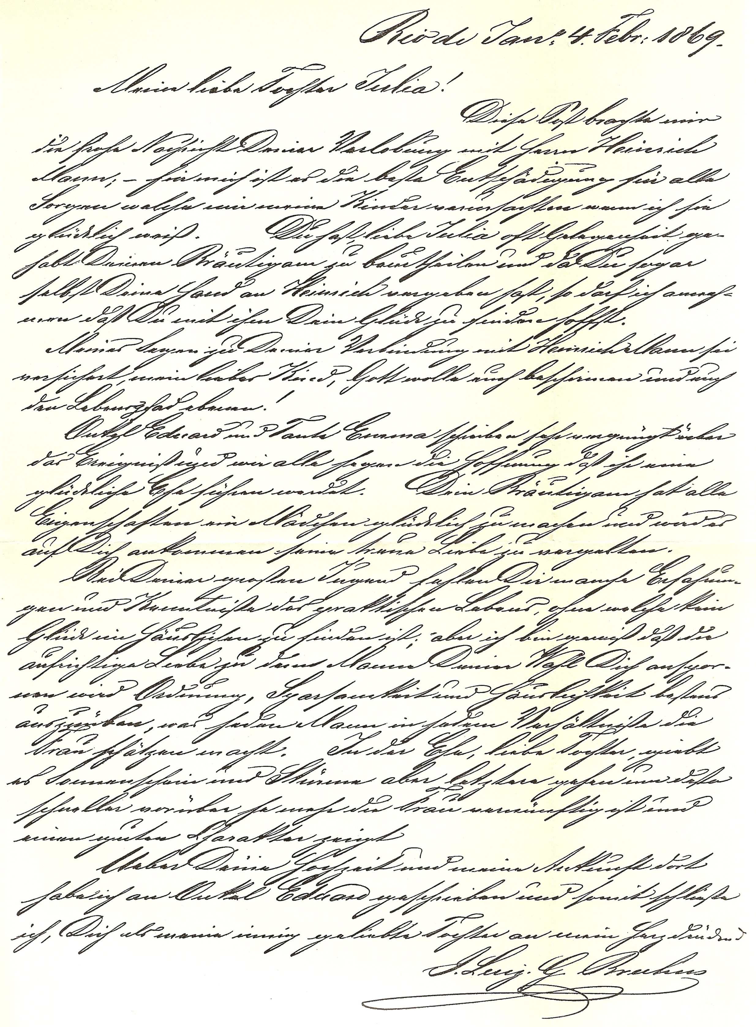 Letter by Johann Ludwig Bruhns from Brazil to his daughter Julia Ludwig da Silva-Bruhns in Lübeck, Germany, acknowlodging her prior engagement to Lübeck merchant and fiancee Thomas Johann Heinrich Mann.